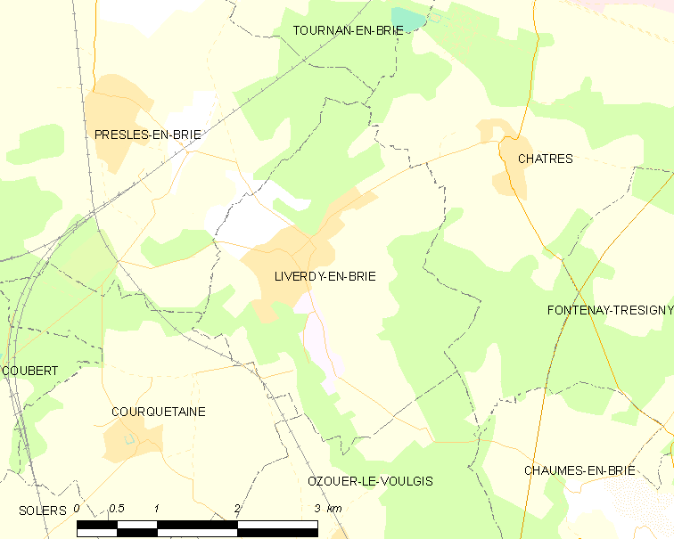 Map of French municipality Liverdy-en-Brie